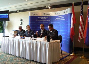 The Hon. Lawrence Cannon Minister of Transportation, Infrastructure and Communities; Hon. Stockwell Day, Minister of Public Safety; Consul General John R. Nay, Jeffrey Watson, Member of Parliament for Essex-Windsor.